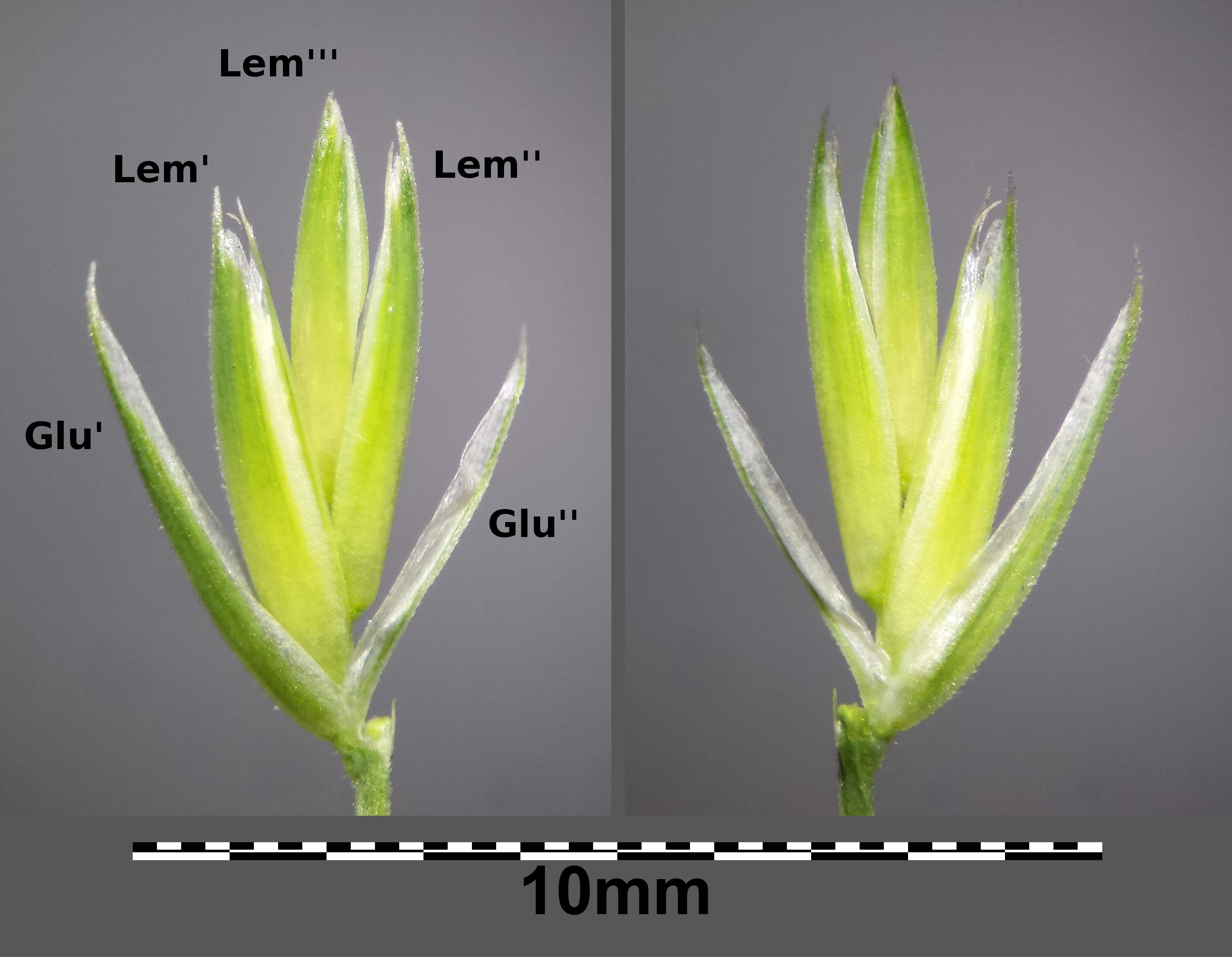 Expanded spikelet with Glumae (Glu) and three flowers wrapped within Lemma (Lem) Taxonym: Dactylis polygama ss Fischer et al. EfÖLS 2008 ISBN 978-3-85474-187-9 Location: Rohrwald, district Korneuburg, Lower Austria - ca. 300 m a.s.l. Habitat: Carpinion betuli